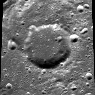 Omar Khayyam lunar crater - Clementine image